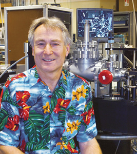 Scientist Richard Saykally